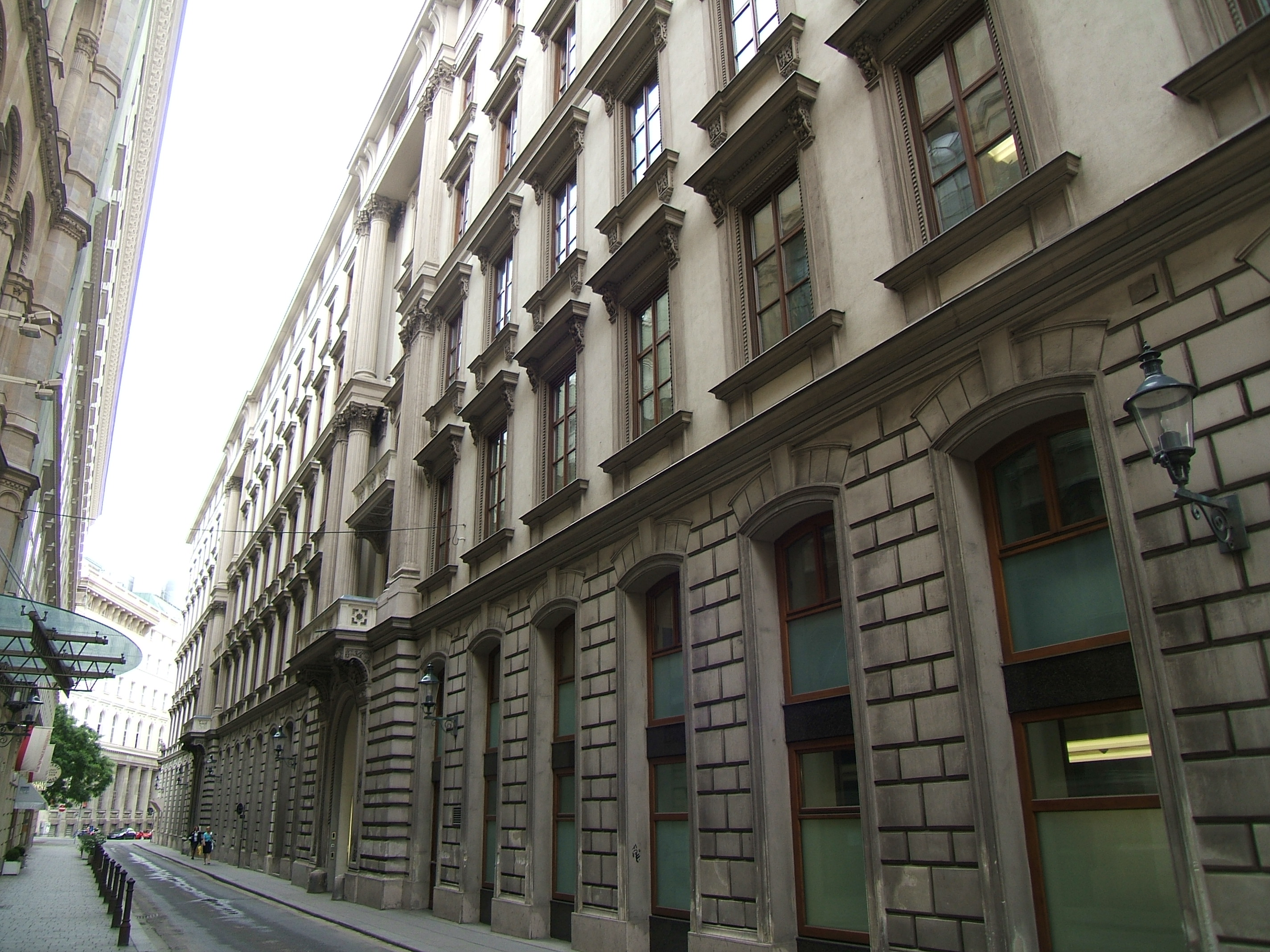 Palais Montenuovo in Vienna 1st district, Strauchgasse 1-3